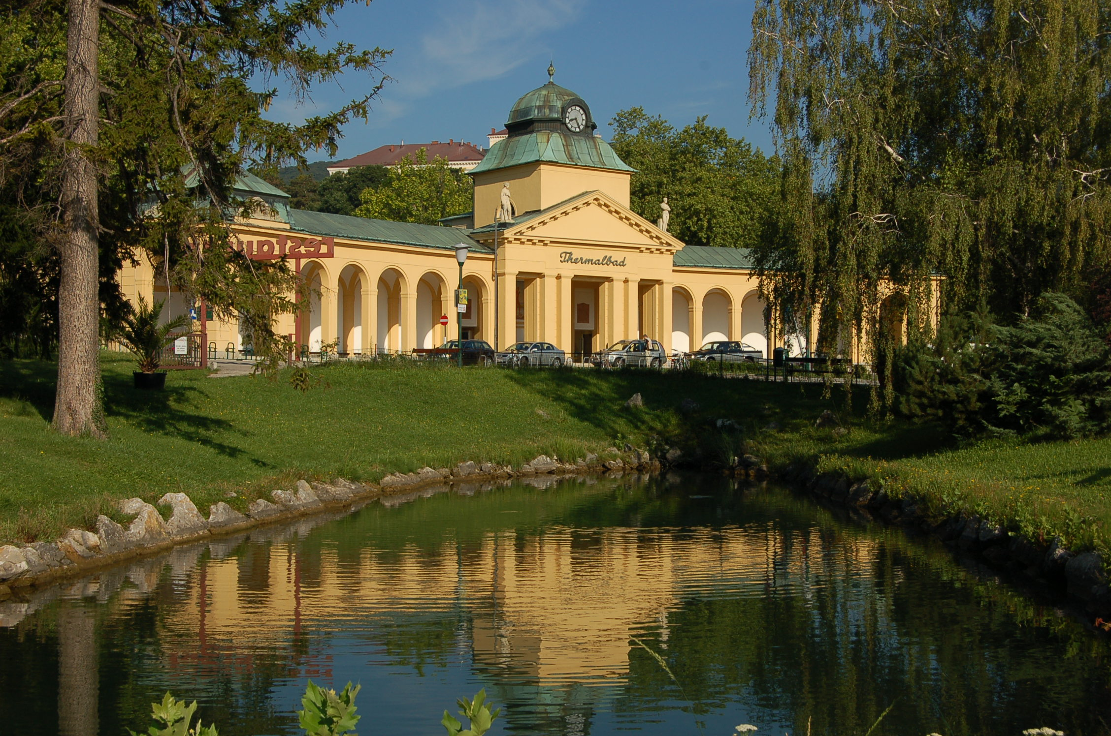 Bad Voeslau thermal bath